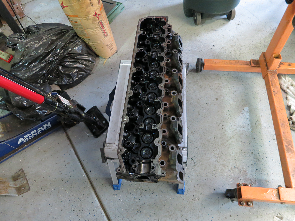 Top view of a Toyota 1HZ Cylinder Head